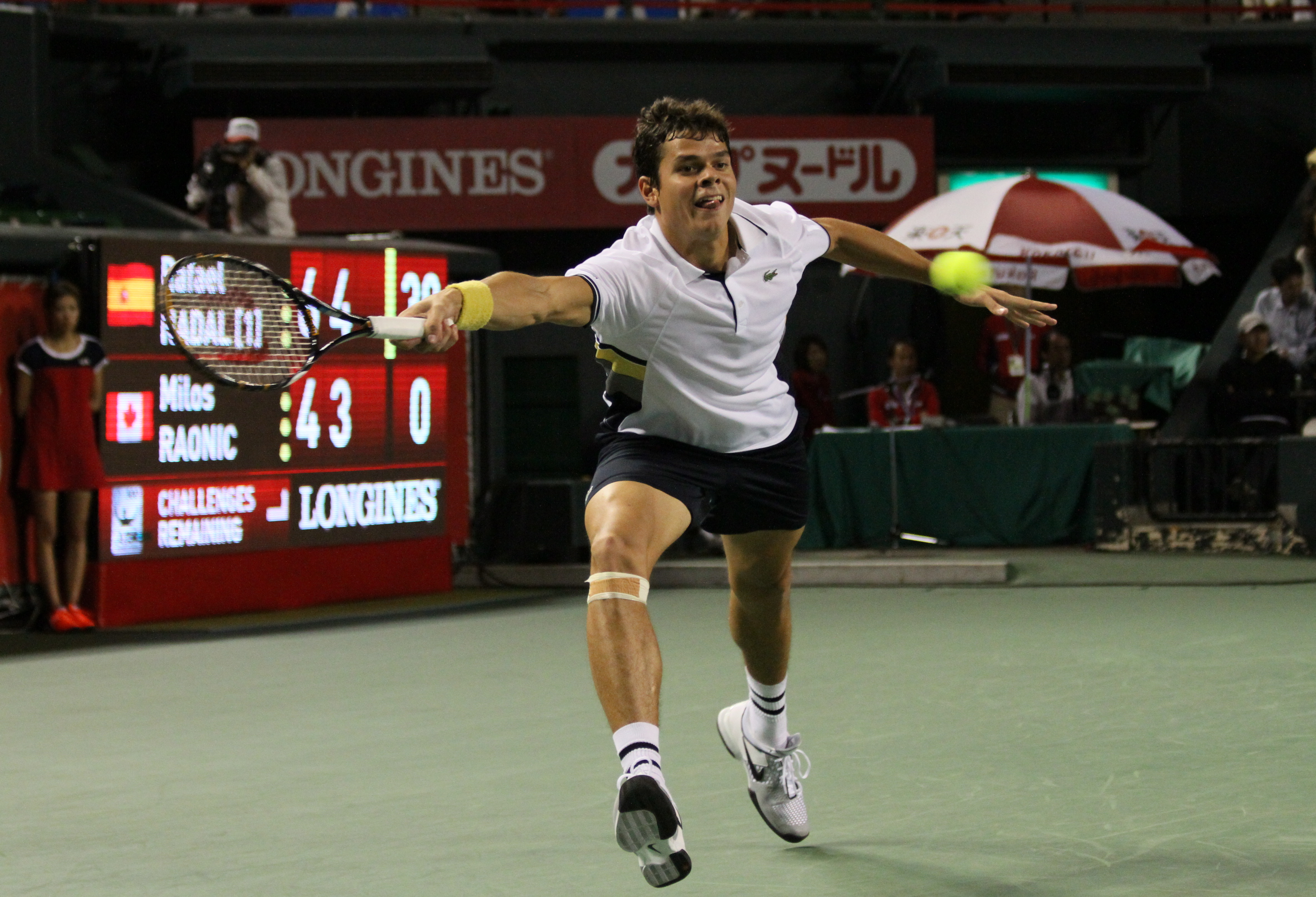 Milos Raonic at the 2010 Japan Open Tennis Championships